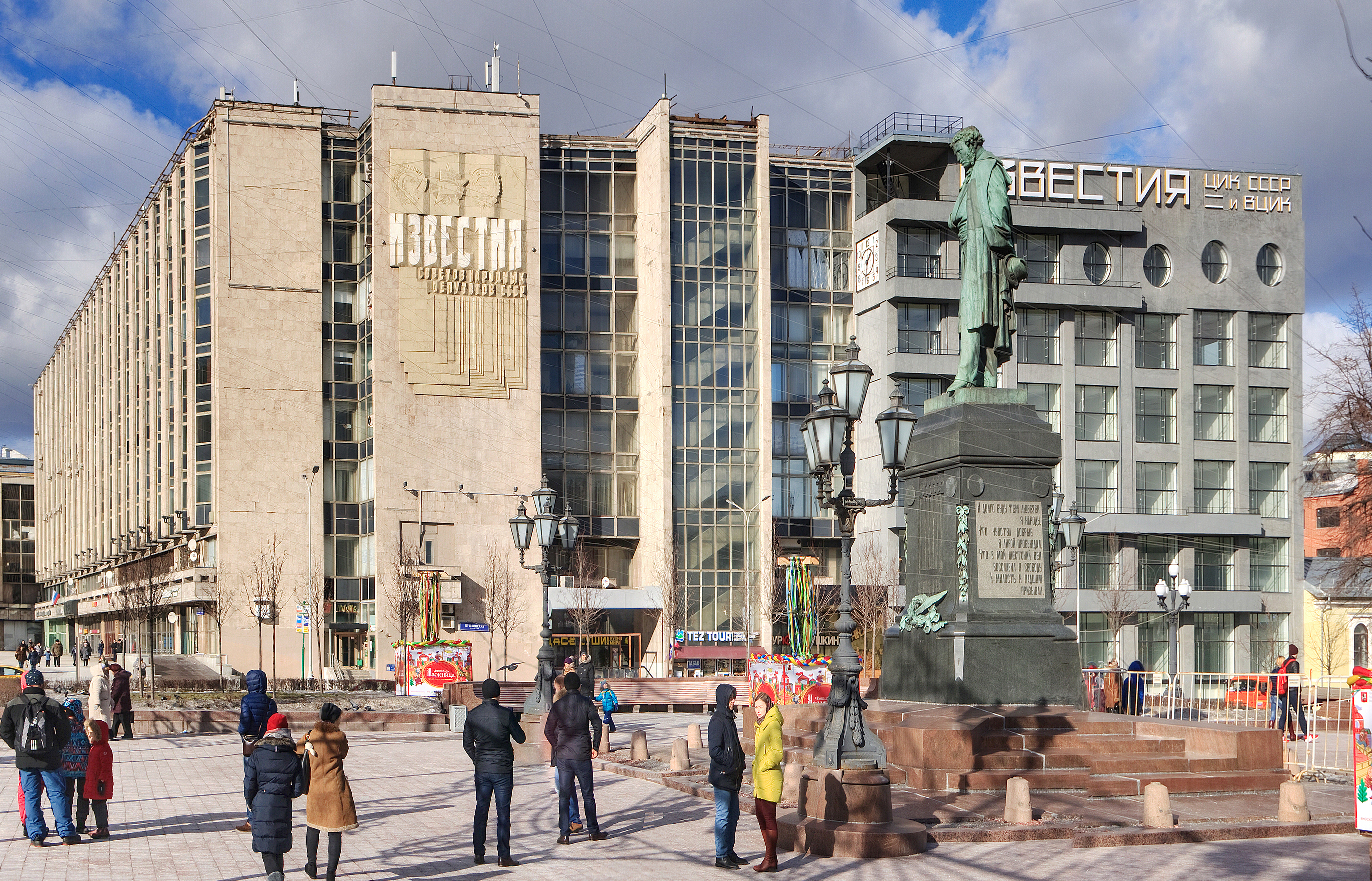 Izvestia Building, Moscow